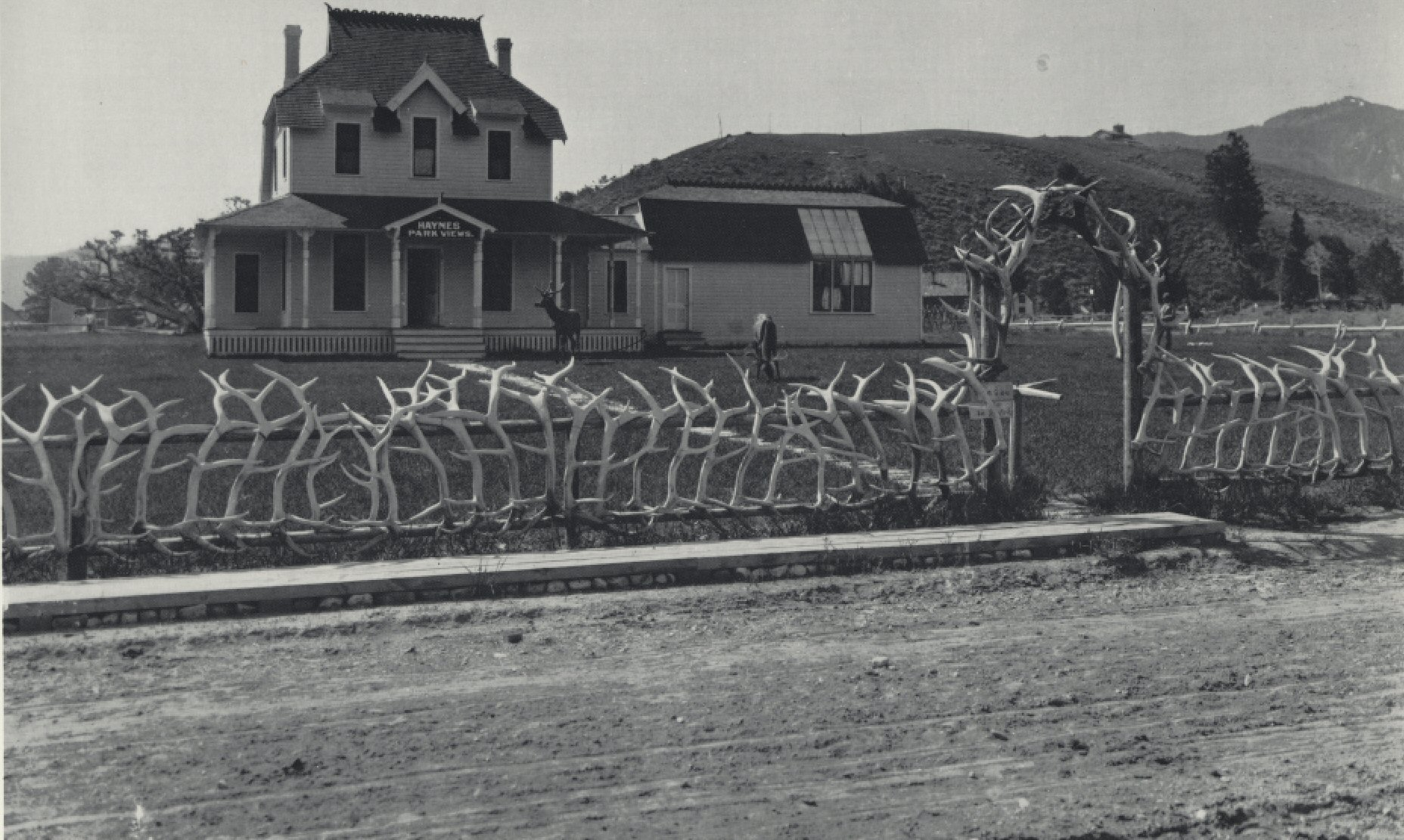 Haynes Studio, Mammoth Hot Springs, Yellowstone National Park, Wyoming, 1898